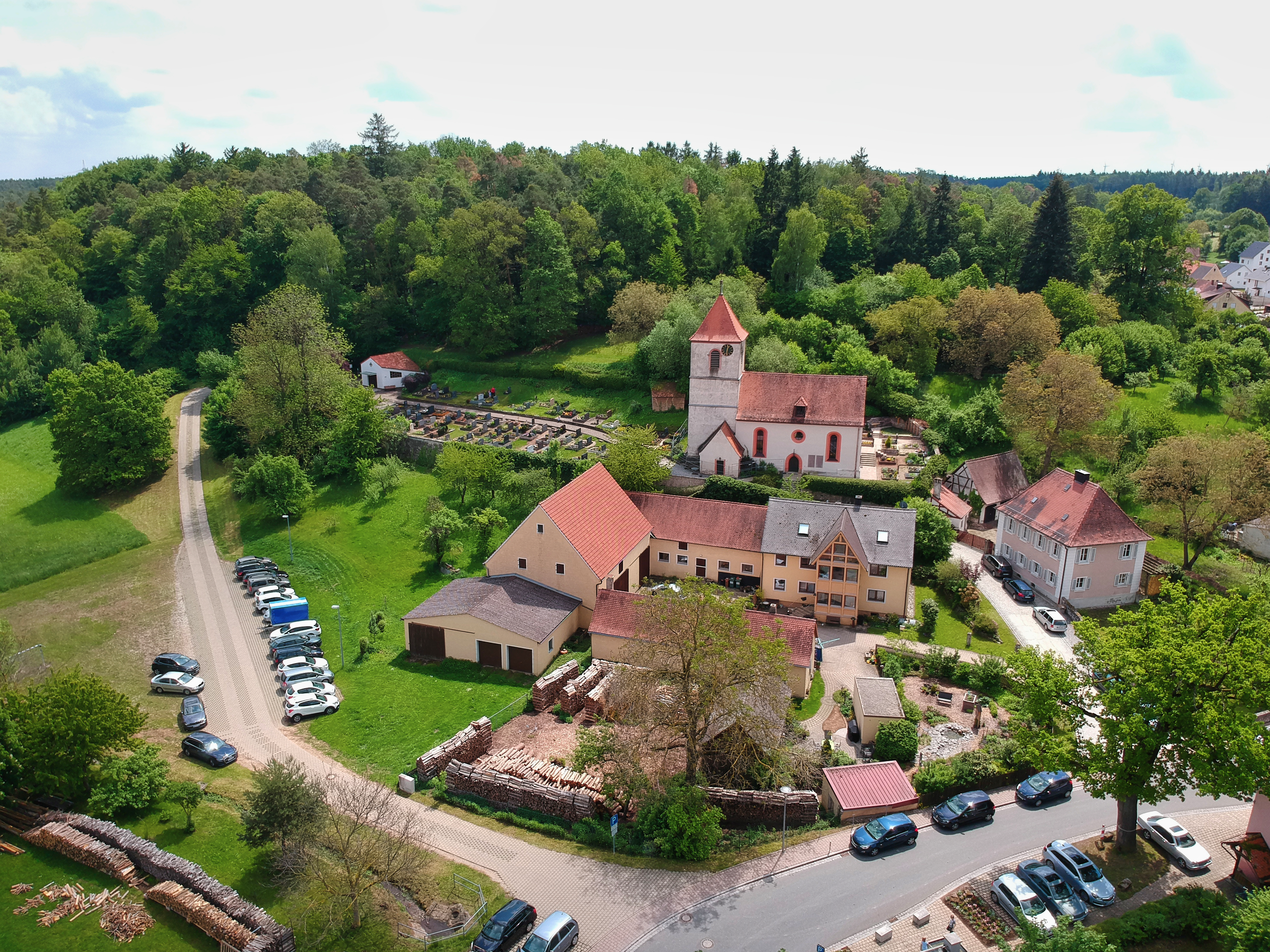 You can see the church,the rectory (right) and a private house (left). The picture was taken on the 90th anniversary of the local trombone choir "Posaunenchor Weißenbronn".